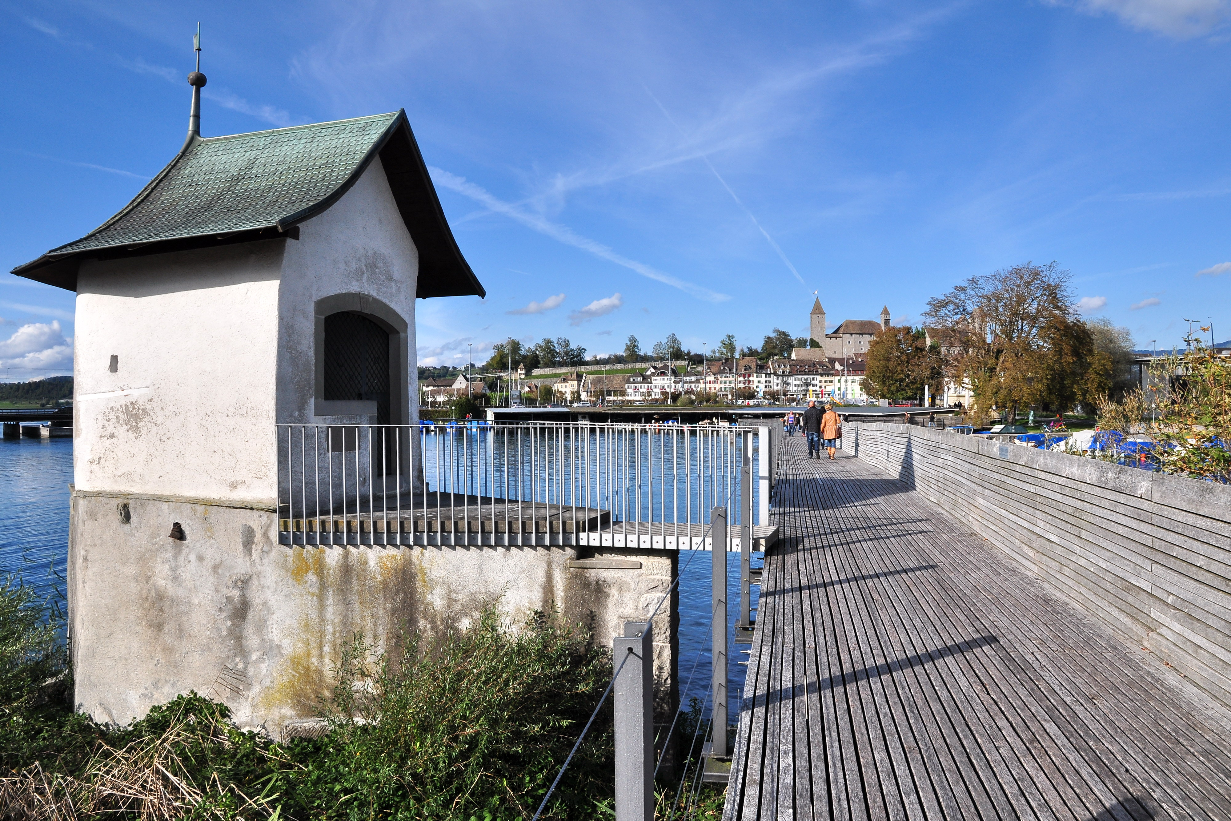 Rapperswil (Switzerland) as seen from the wooden bridge between Rapperswil and Hurden, crossing Obersee (upper Lake Zurich), «Heilig Hüsli» chapel to the left, Altstadt, Schloss and Stadtpfarrkirche (St. John's Church) in the background.